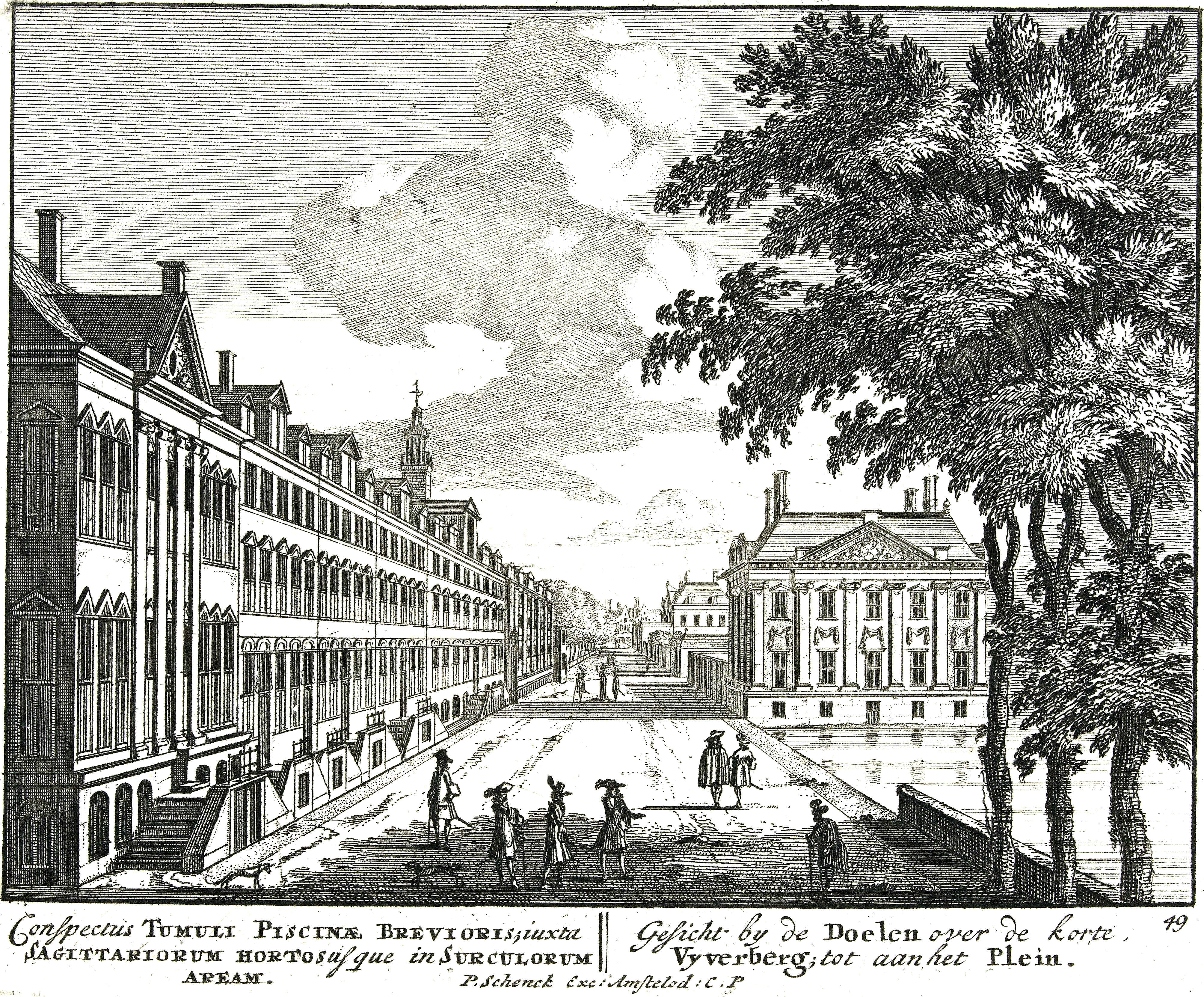 Print from a series of 71 prints of Rhine landscapes, views of royal palaces and city views from The Hague and Amsterdam.